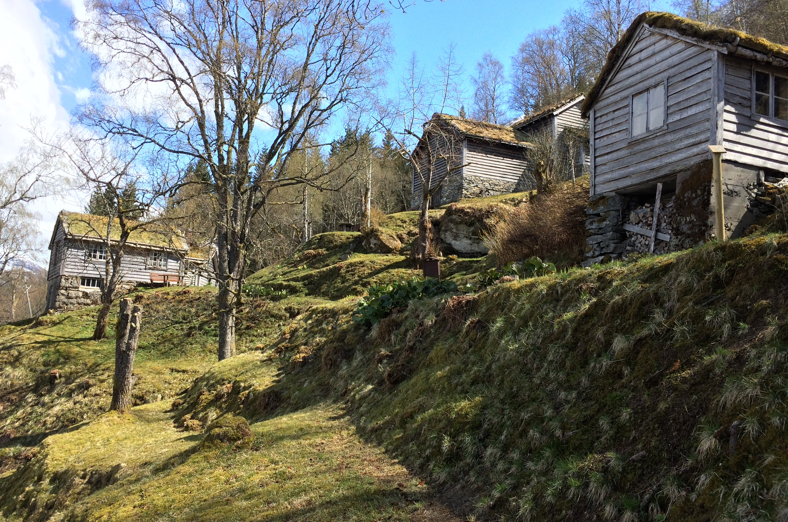 Astruptunet (home of artist Nikolai Astrup) by Jølstravatnet Lake, Jølster Municipality, Sogn og Fjordane, Norway, 6th May 2015